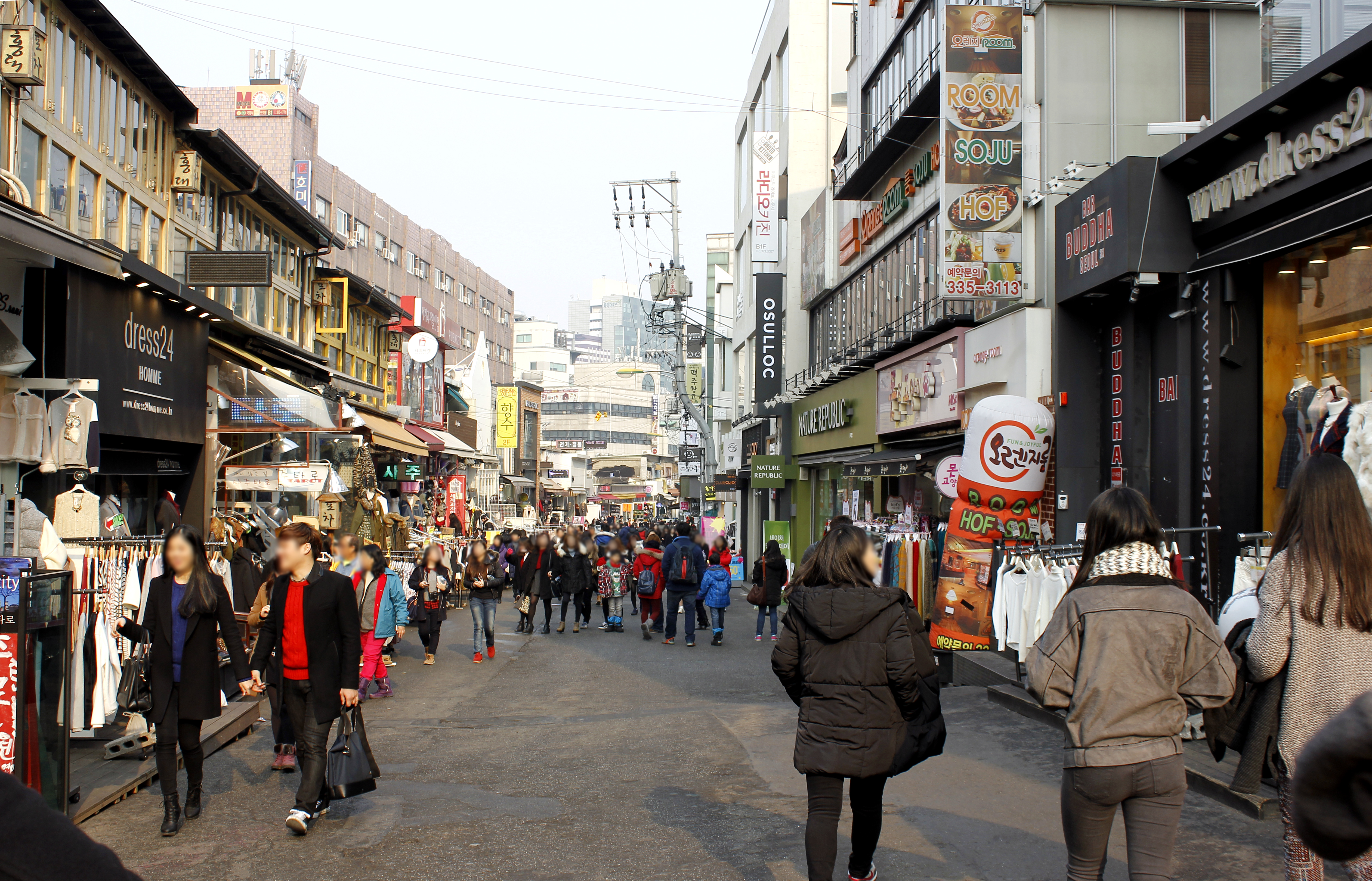 Hongdae Street (Oulmadang-ro)